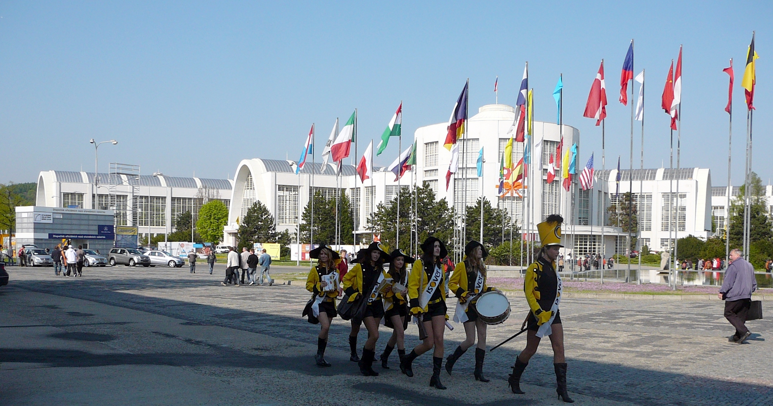 Majorettes on the Brno Exhibition Grounds in the Building Fair.